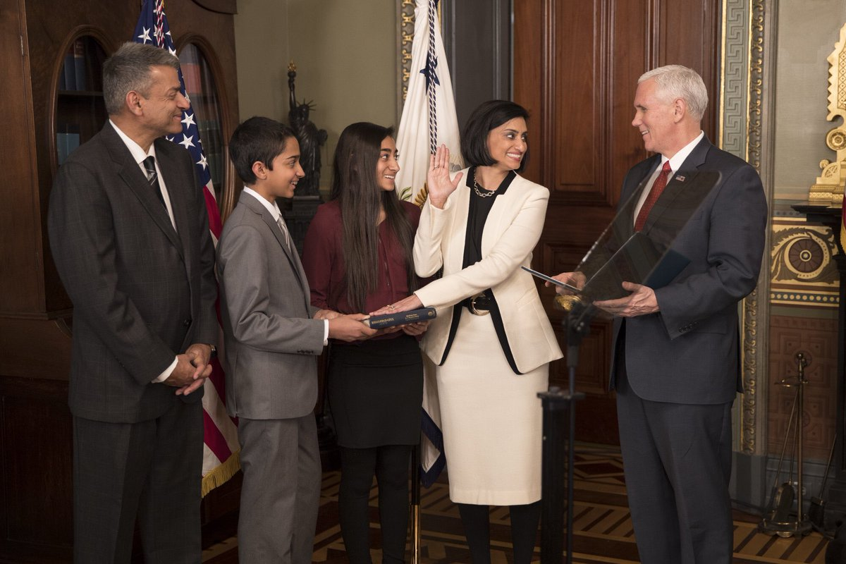 VP Pence swearing in Seema Verma